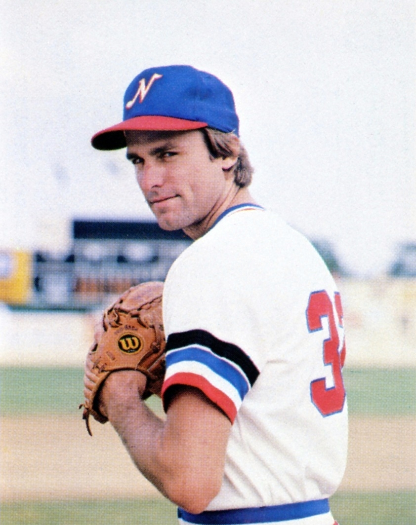 Pitcher Roger Slagle of the 1980 Nashville Sounds Minor League Baseball team of the Southern League